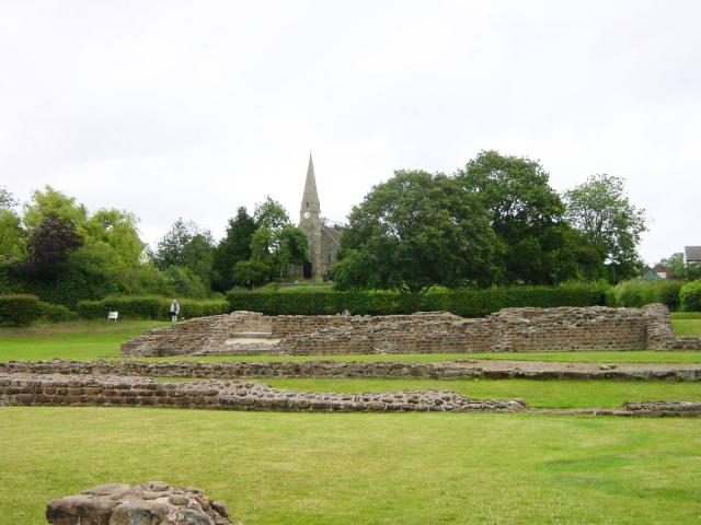 Letocetum Roman Mansio & Baths in Wall